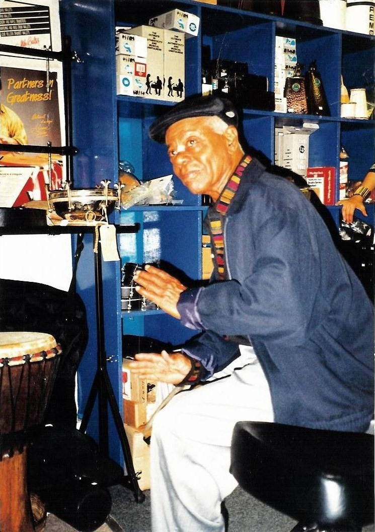 Photograph of Armando Peraza playing the bongo drums in London 1999. Photo taken and copyright owned by Simon Leng